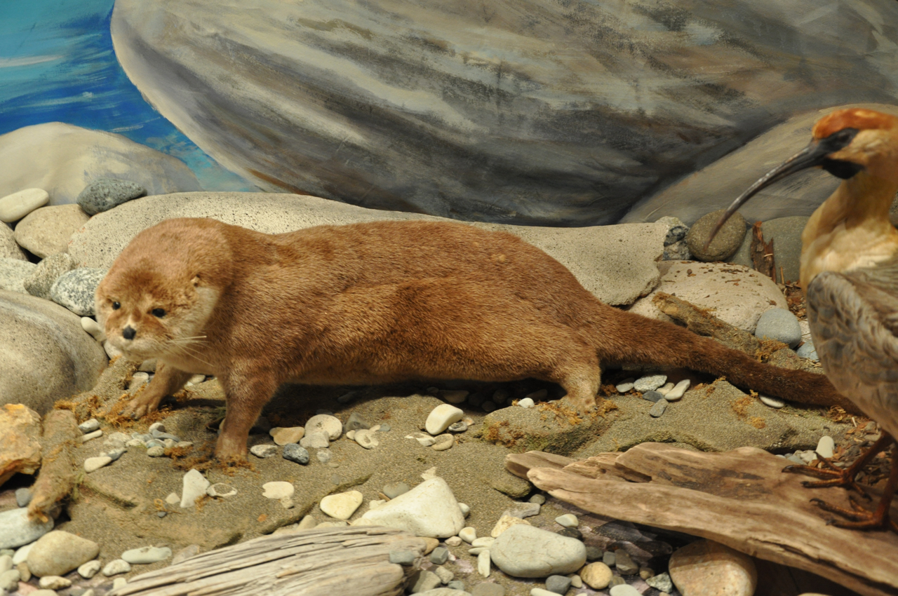 Lontra provocax - Southern River Otter - Museum of Patagonia - San Carlos de Bariloche, Argentina